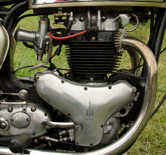 Heskin Hall Steam Fair 31/05/2014